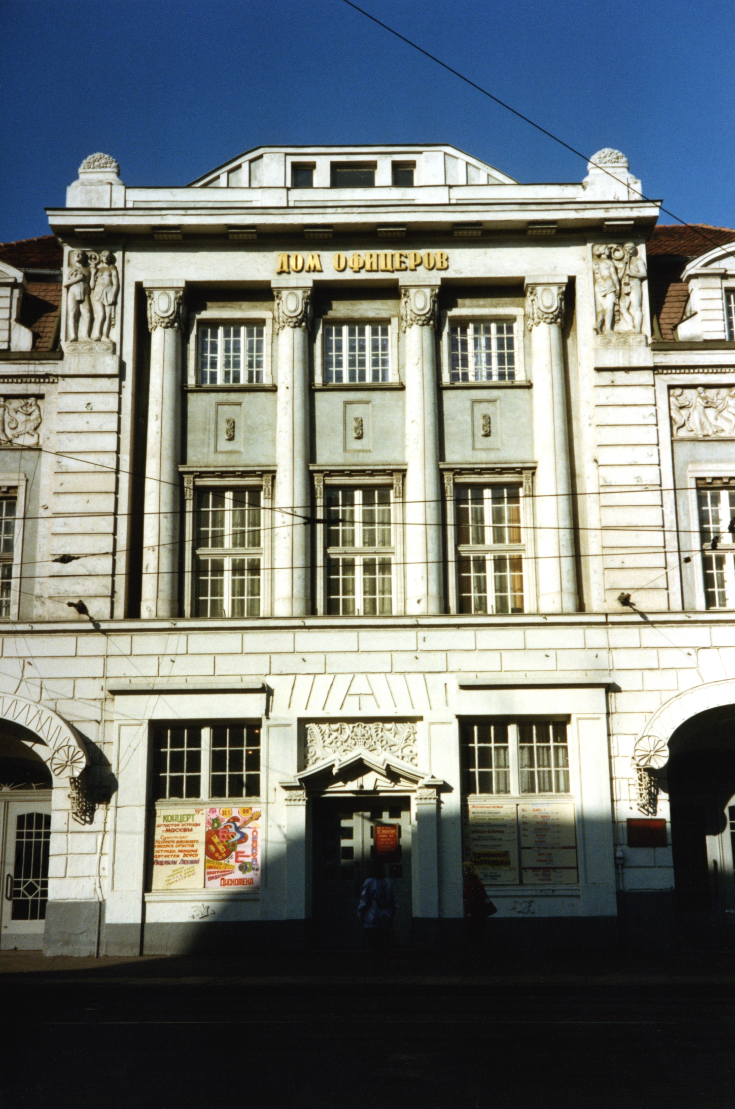 Schwerin Marienplatz